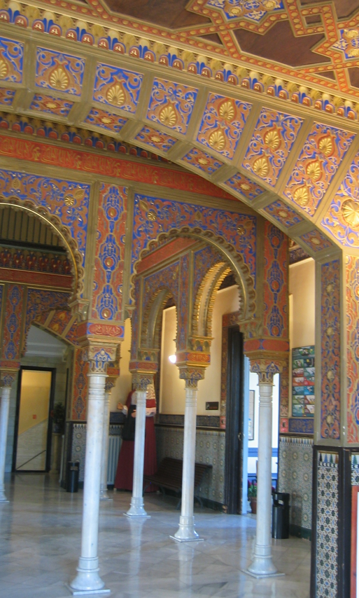 Description: own picture; it was shot in the hall of Youth Hostel Mare de Deu del Coll, Barcelona, Spain; permission granted by attendantsPurpose : al-andalus series of articles, in Wikipédia (FR).Source: Utilisateur:HolycharlyLicence